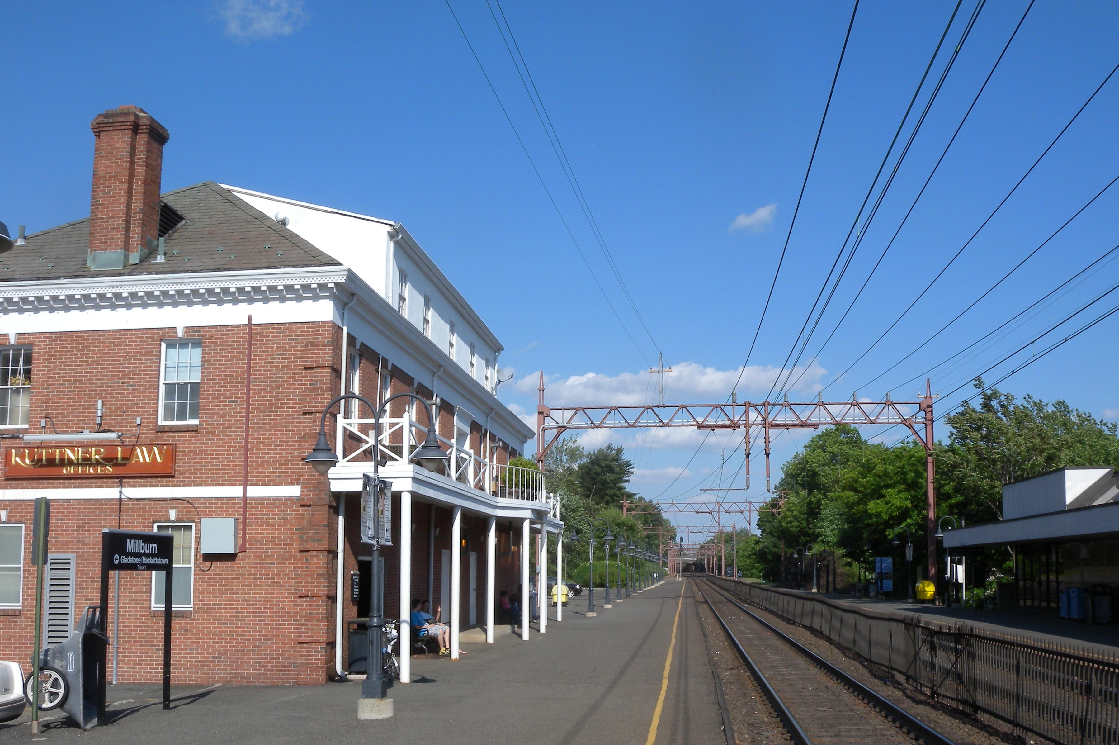 Looking east at former station house of Millburn (NJT station), now an office building, on a mostly sunny afternoon.